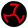 Insignia (triple-seven) of the British 21st Division.